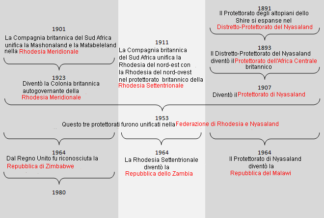 evolution of the british protectorate states italian translation